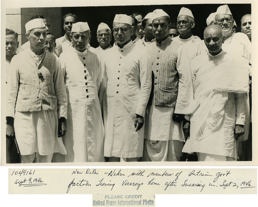 "New Delhi: Nehru with members of nterim gov't faction leaving Viceroy's home after Swearing in, Sept 2, 1946" Source: ebay, Feb. 2009